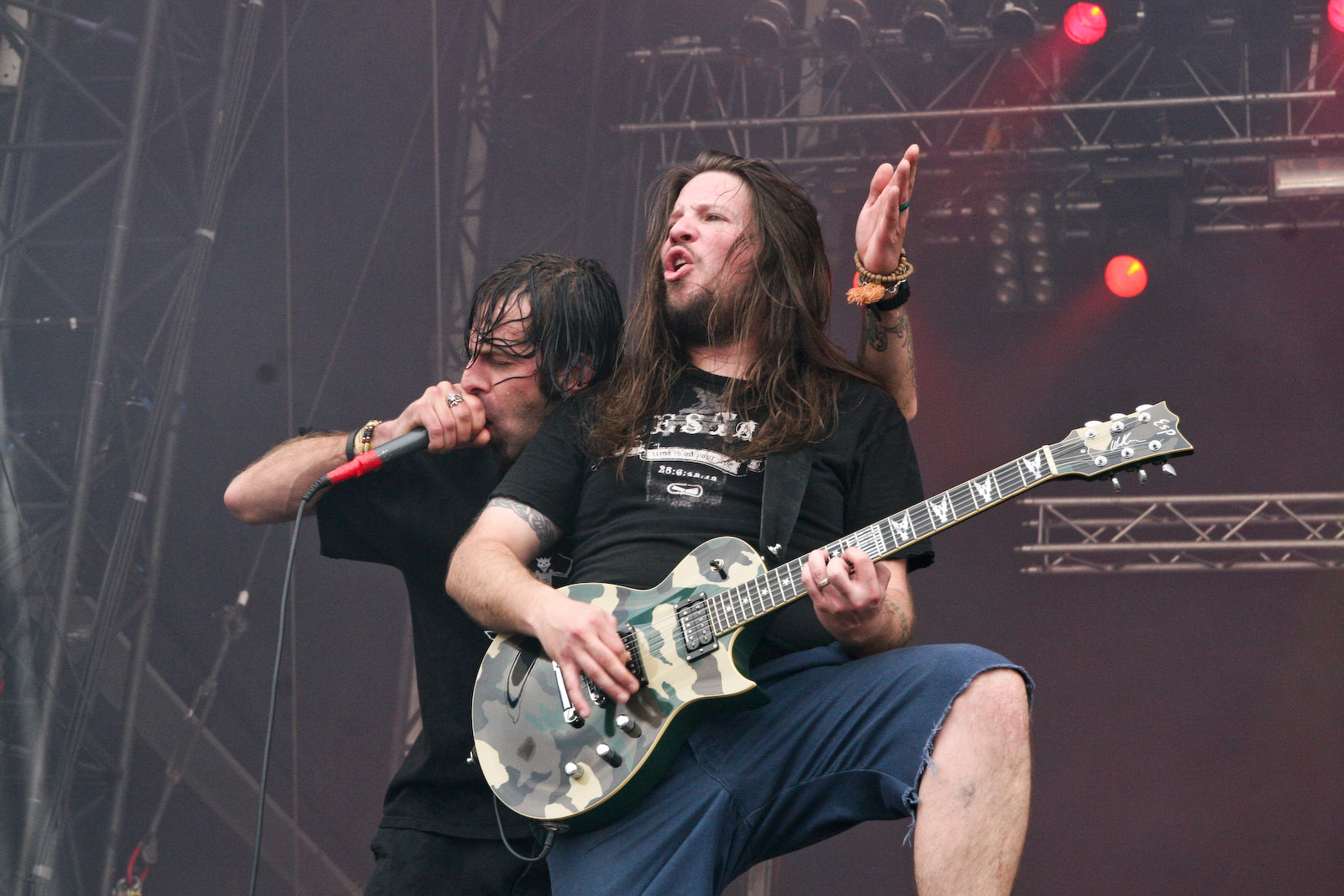 Lamb of God at With Full Force 2007